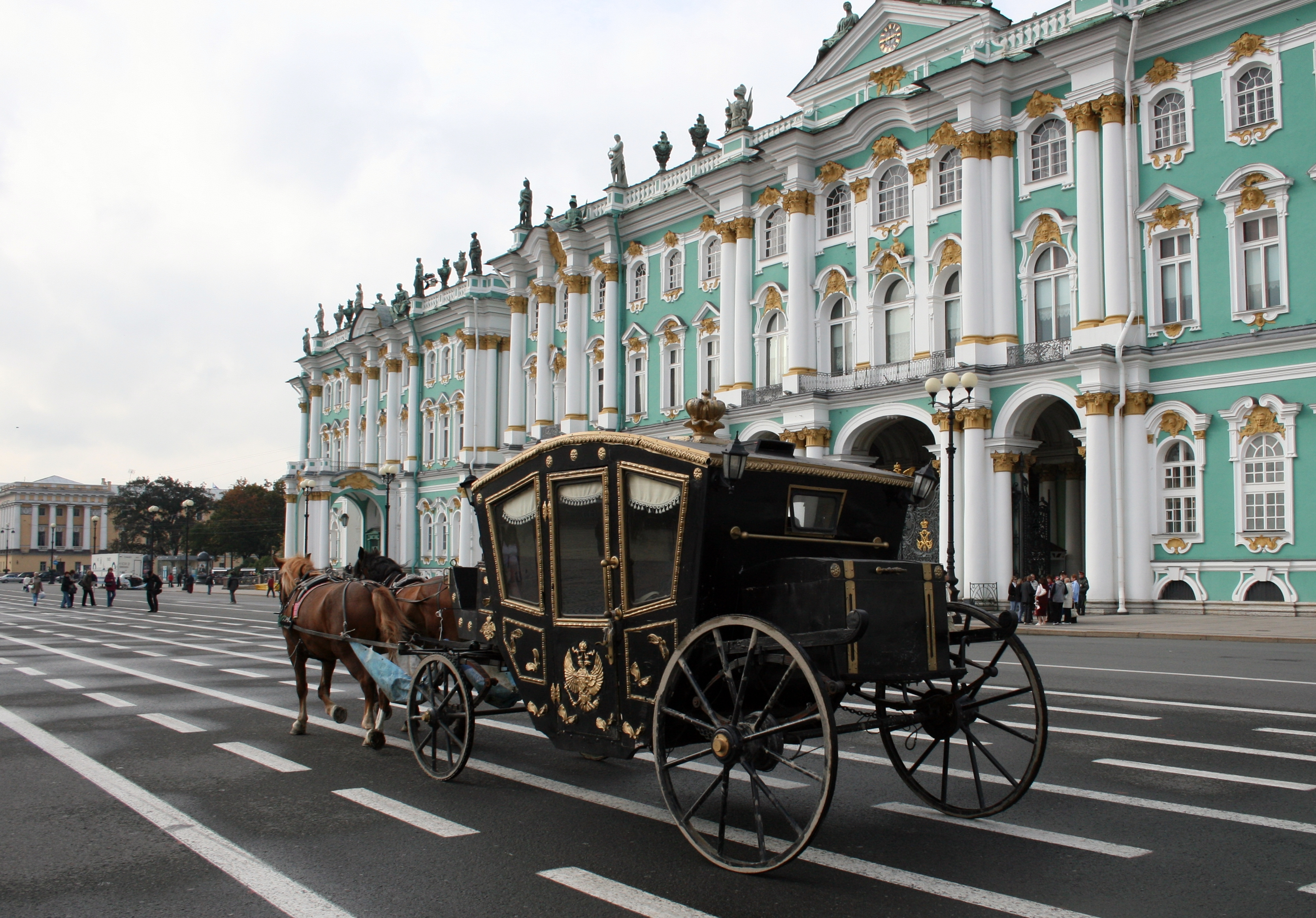 Russia, Saint Petersburg: Carriage in front of Winter Palace, from Palace Square.